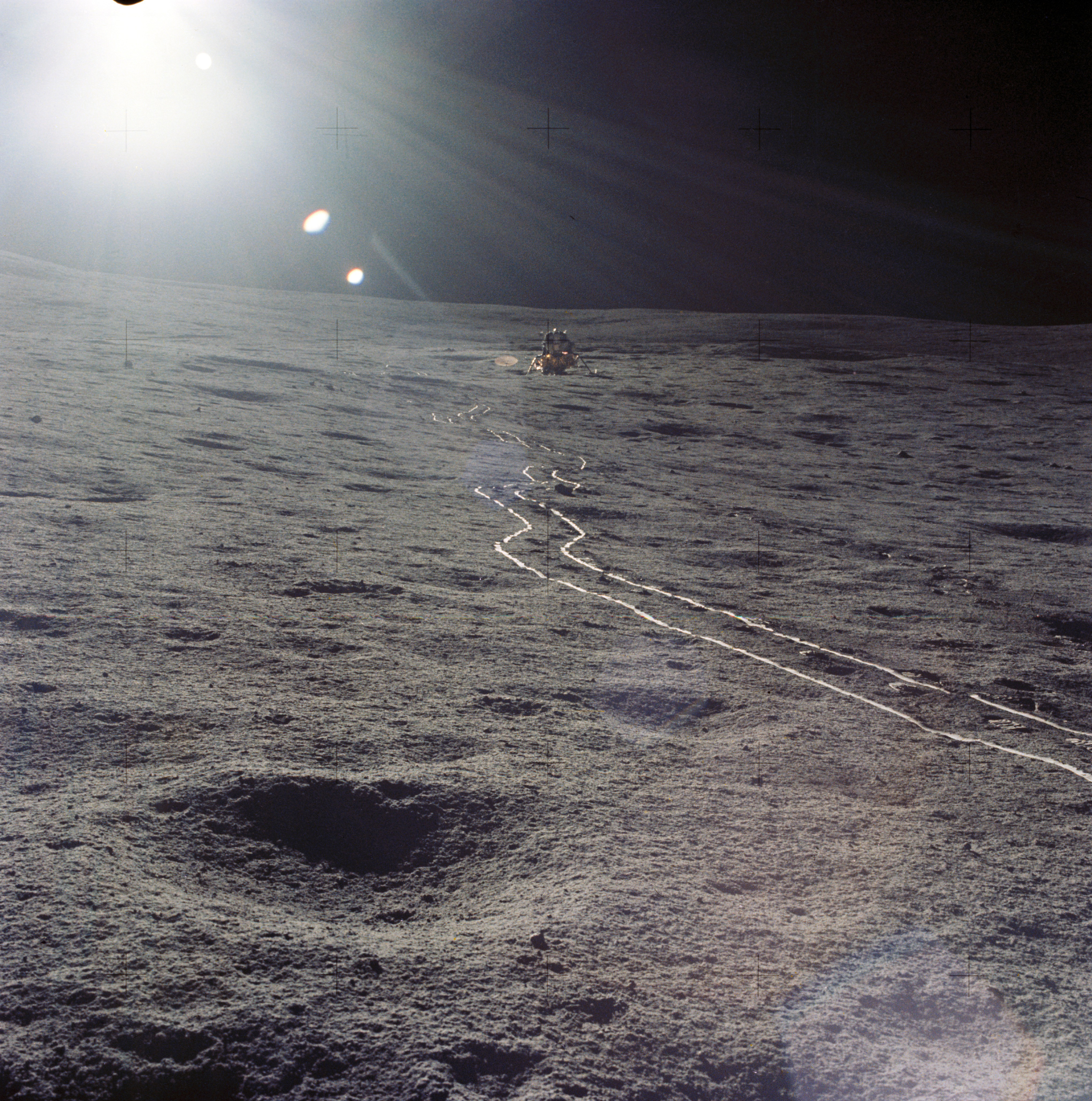 The Apollo 14 Lunar Module (LM) "Antares" is photographed against a brilliant sun glare during the first extravehicular activity (EVA-1). A bright trail left in the lunar soil by the two-wheeled Modularized Equipment Transporter (MET) leads from the LM.